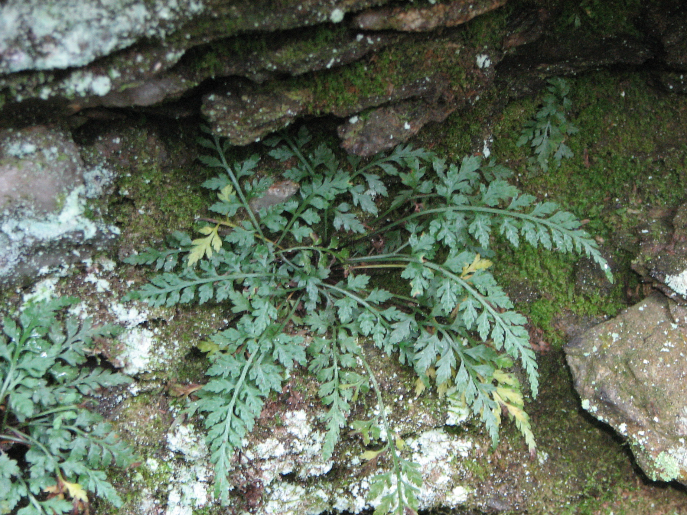 Tuft of mountain spleenwort (Asplenium montanum) at Tucquan Glen, Lancaster County, Pennsylvania.